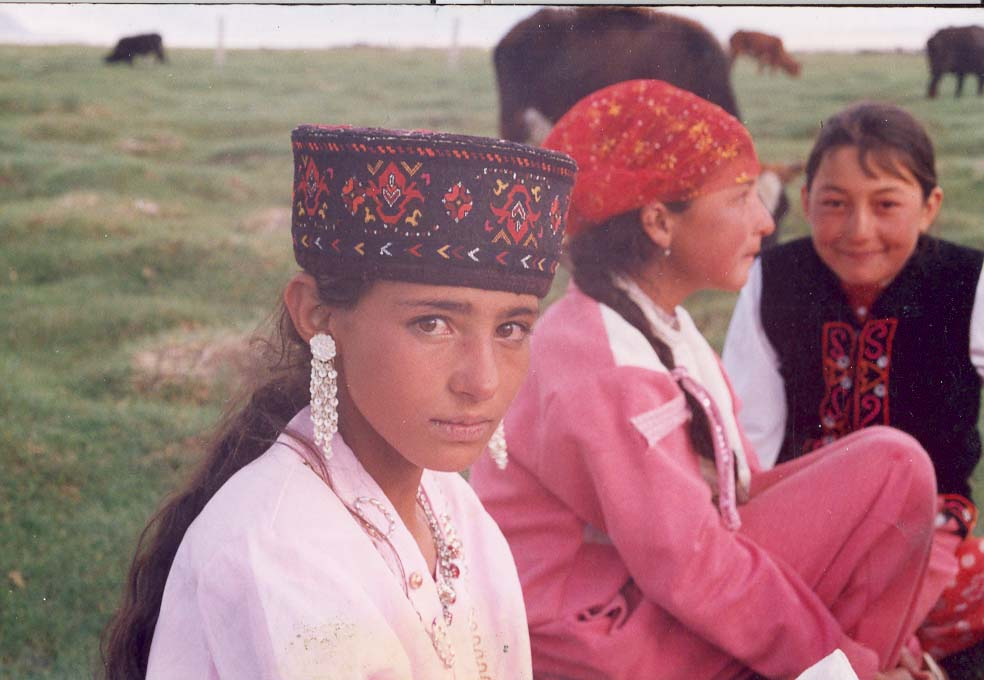 Tajik girls in Pamir mountains.